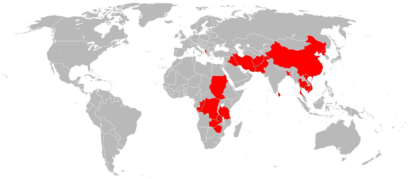 A world map showing the operators of the Chinese Type 59 tank (labeled in red)